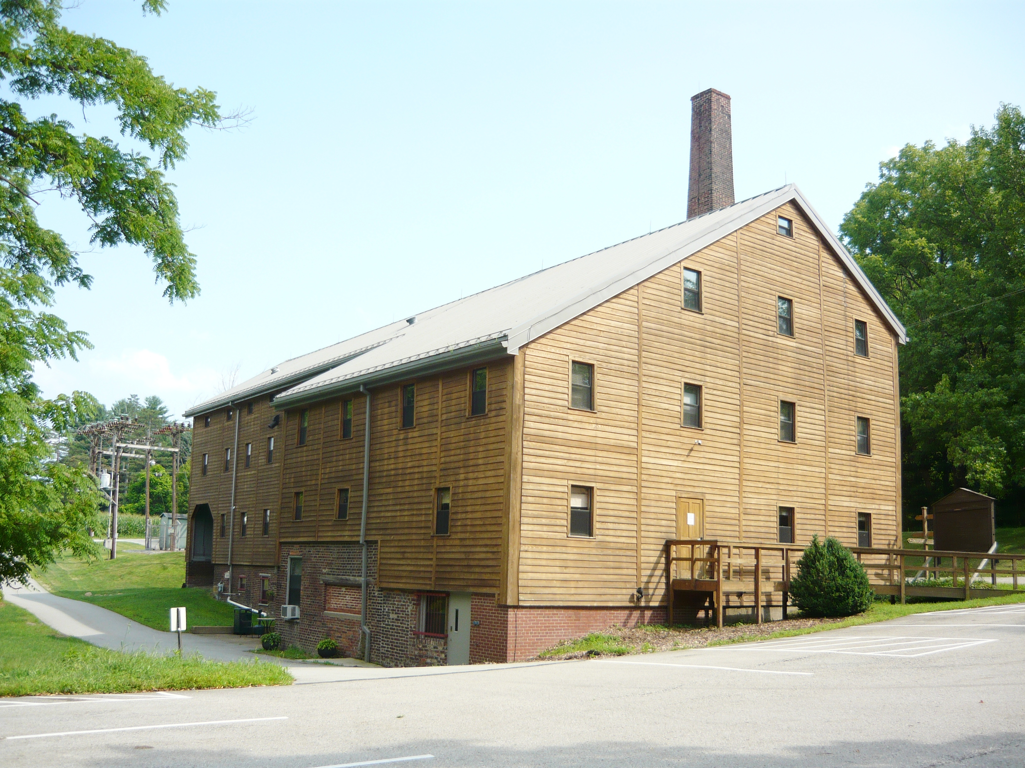 St. Vincent Archabbey Gristmill, Beatty County Road, Unity Township (Post office = Latrobe), Westmoreland County, Pennsylvania. Built 1854.